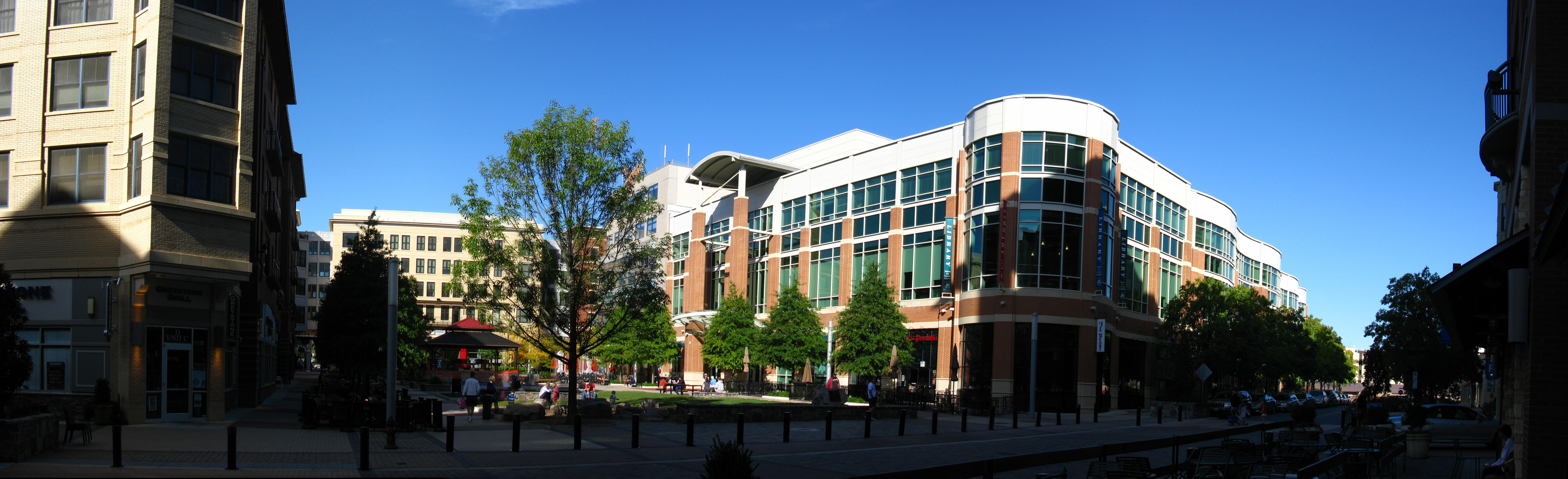 Rockville Town Center, Rockville, Maryland